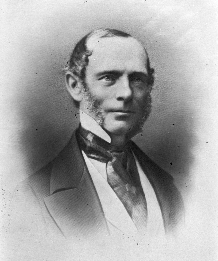 Sir Henry Watson Parker, KCMG (1808–1881), Premier of New South Wales from 1856 to 1857.